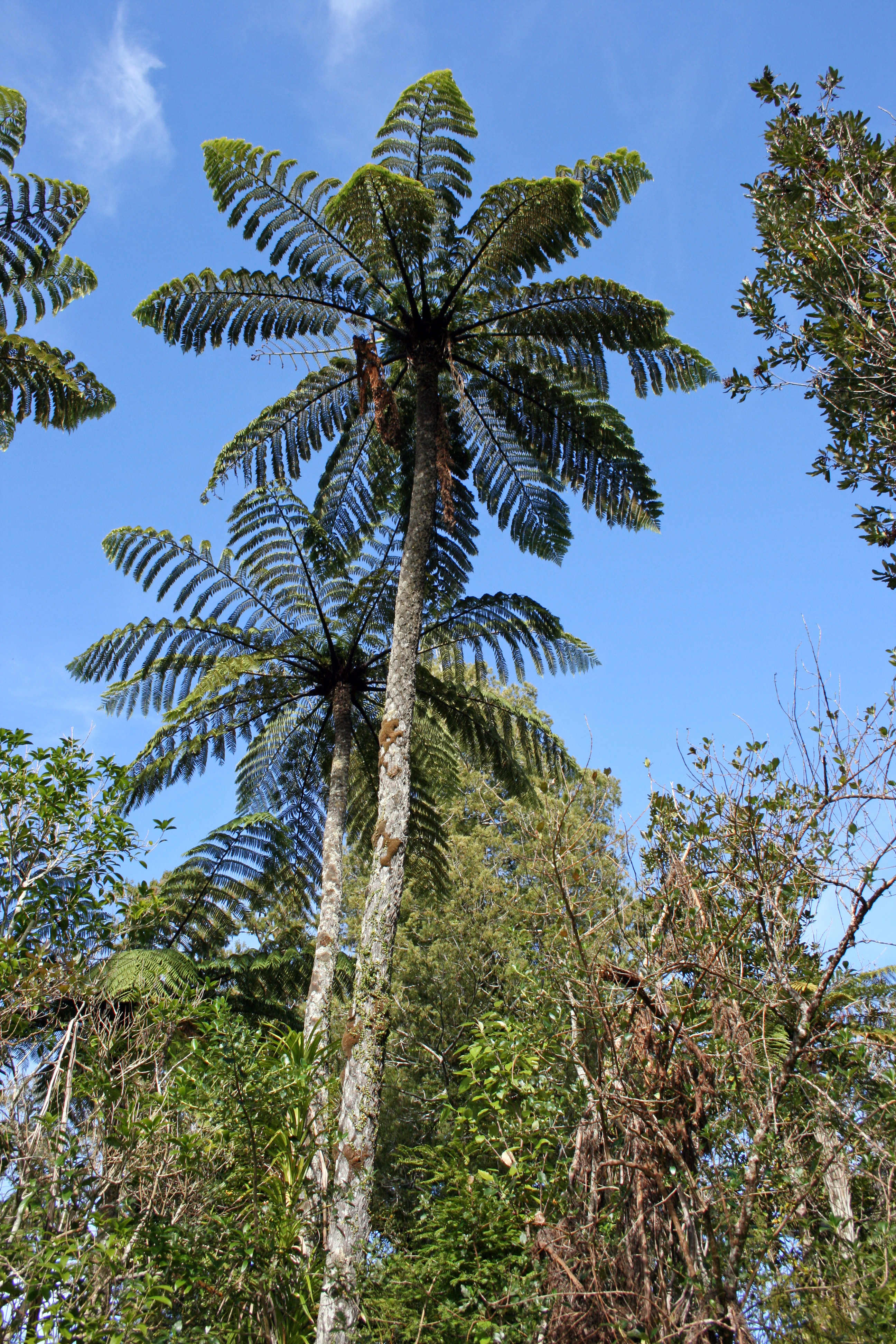 Cyathea medullaris, Mamaku, tree ferns growing in the Waitakere Ranges, near Auckland, New Zealand